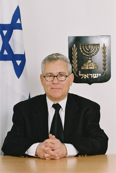 JOSHUA A PILPEL